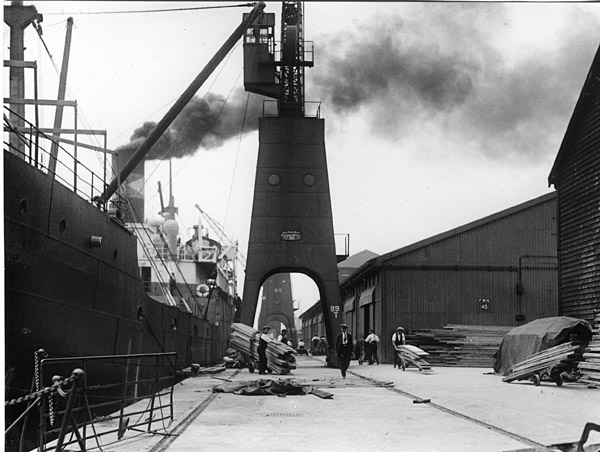 Quayside scene at Greenland Dock, Rotherhithe, London, in 1927